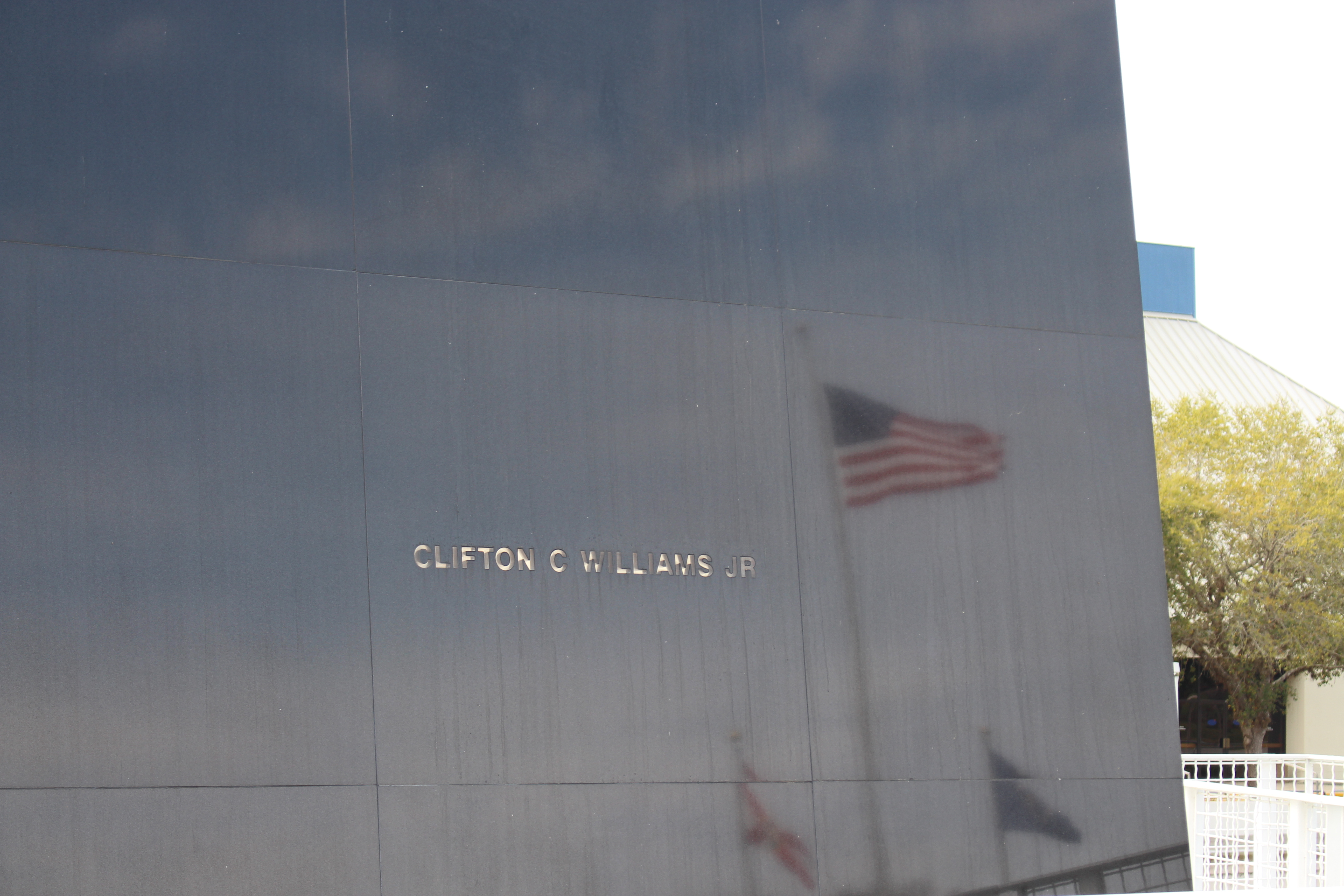 Space Mirror Memorial, Kennedy Space Center, Brevard County, Florida